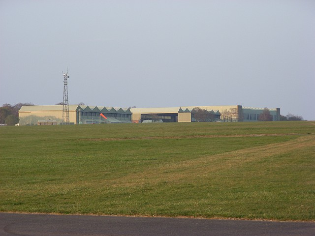 Upavon Airfield View across the airfield from the southern perimeter track.